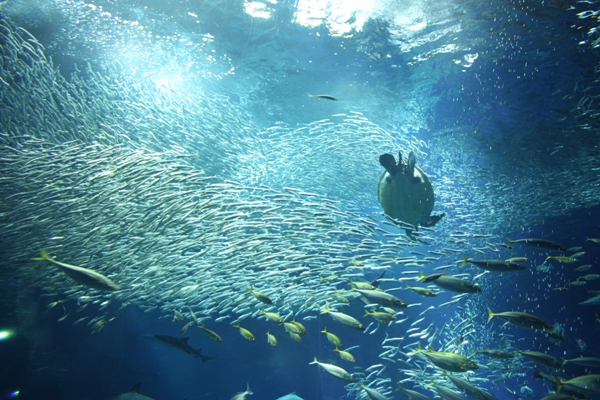 Aqua World Ibaraki Prefectural Oarai Aquarium in Oarai Town, Ibaraki Prefecture, Japan